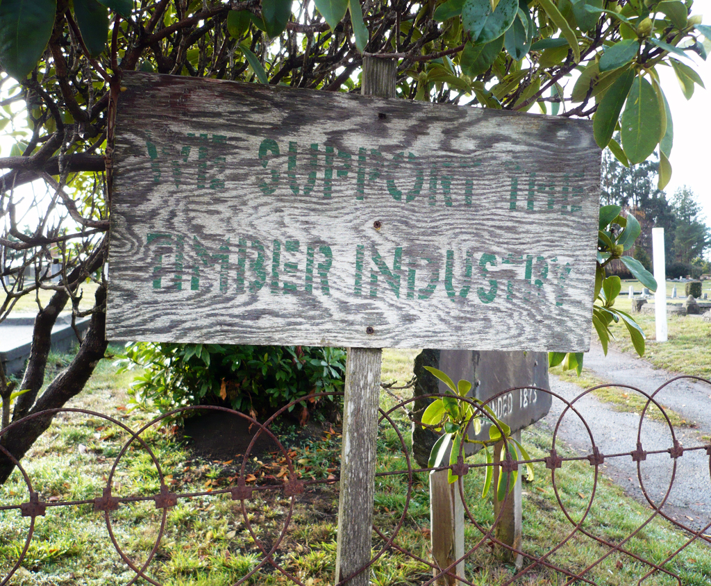 The "We Support The Timber Industry" signs were painted in 2000-2001 to show support for the now defunct "PALCO" Pacific Lumber Company. This one is located outside the Masons and IOOF Cemeteries in Rohnerville (now Fortuna), California.